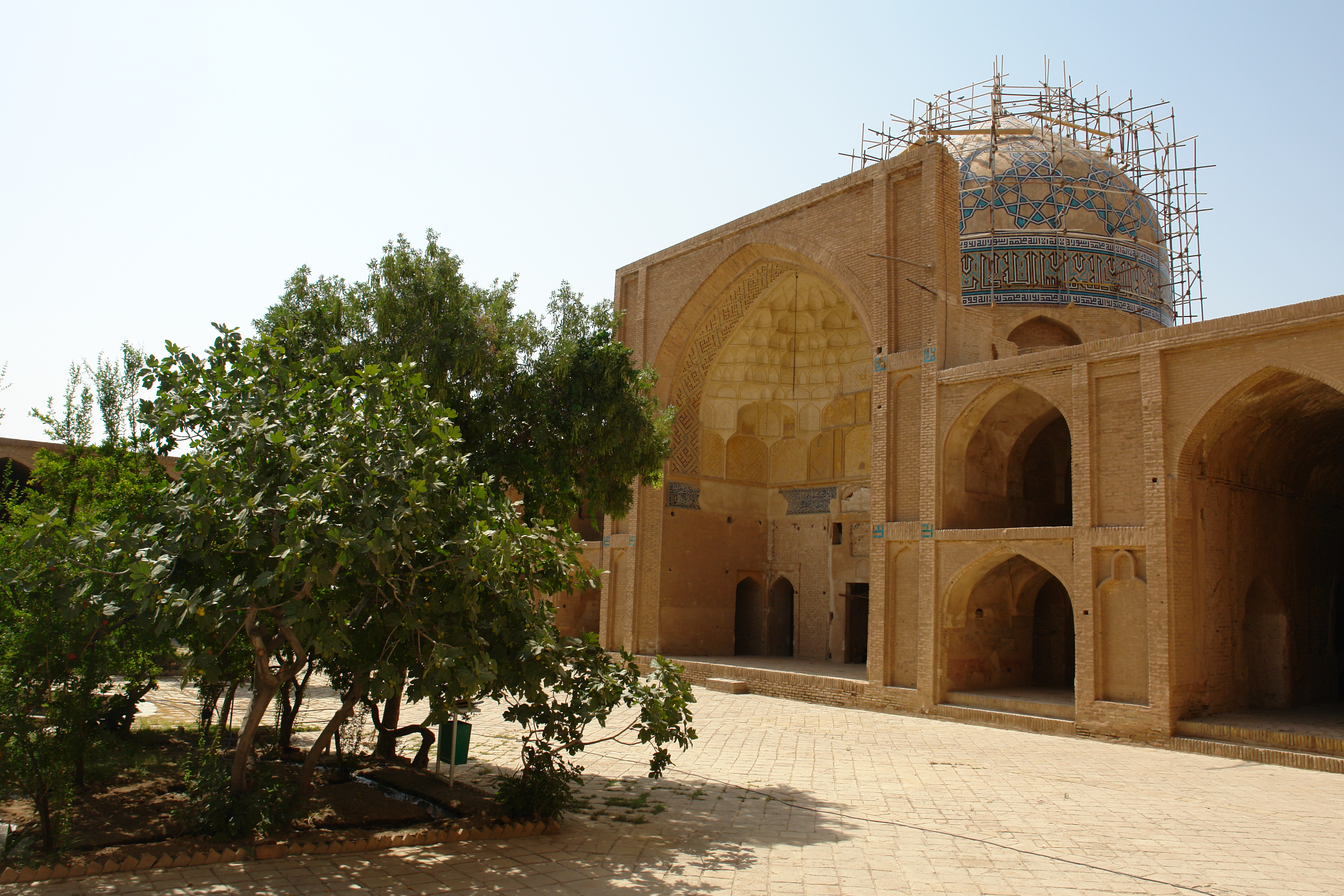 masjed-jame-saveh